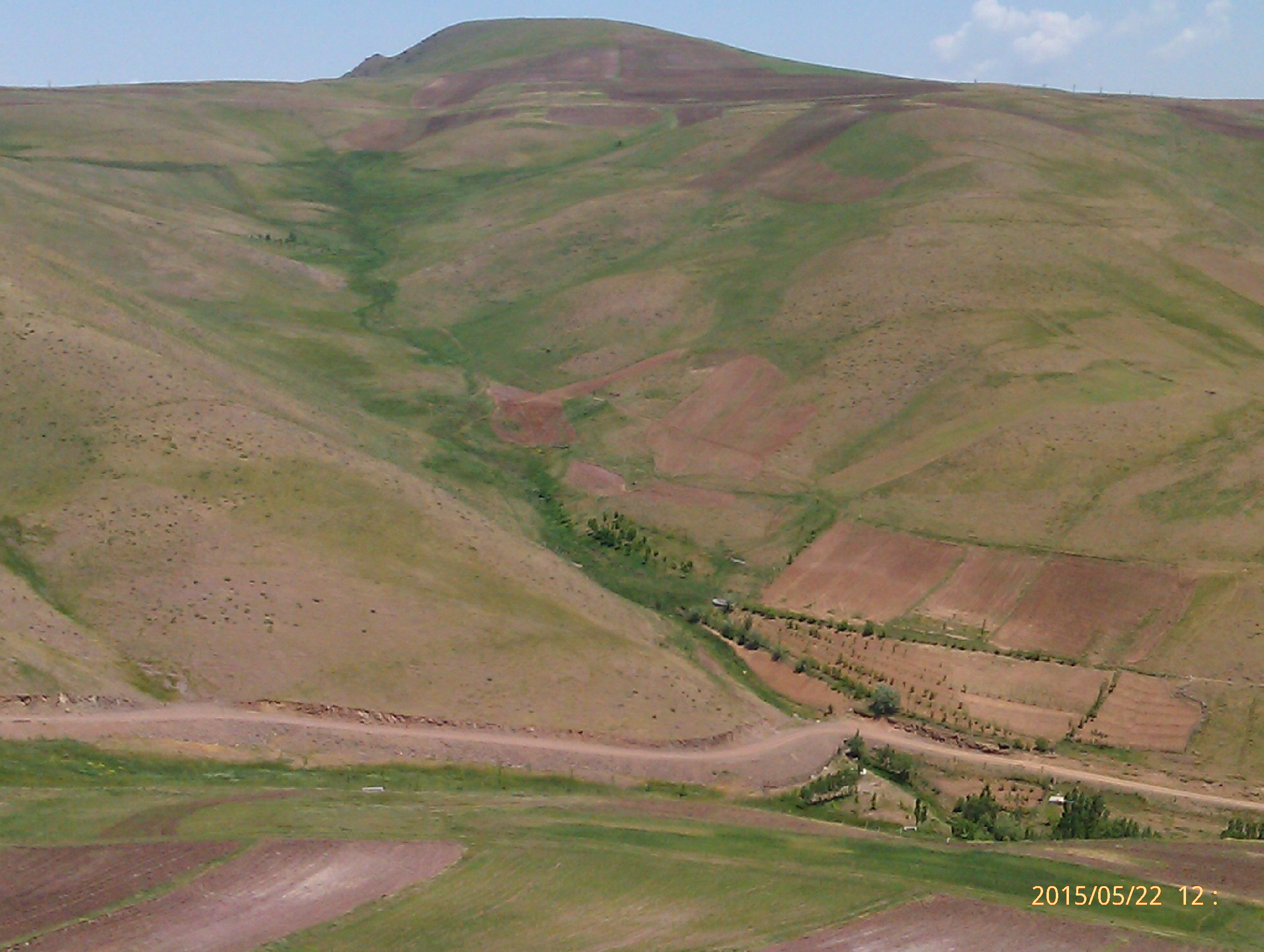 دره مشرف به روستای شاه تپه قزوین